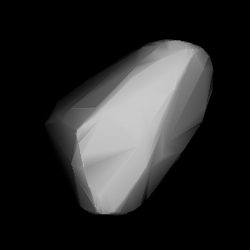 3D convex shape model of 1912 Anubis, computed using light curve inversion techniques. J. Hanuš, J. Ďurech, M. Brož, B. D. Warner (June 2011). "A study of asteroid pole-latitude distribution based on an extended set of shape models derived by the lightcurve inversion method". Astronomy and Astrophysics 530: A134. ISSN 0004-6361. arXiv